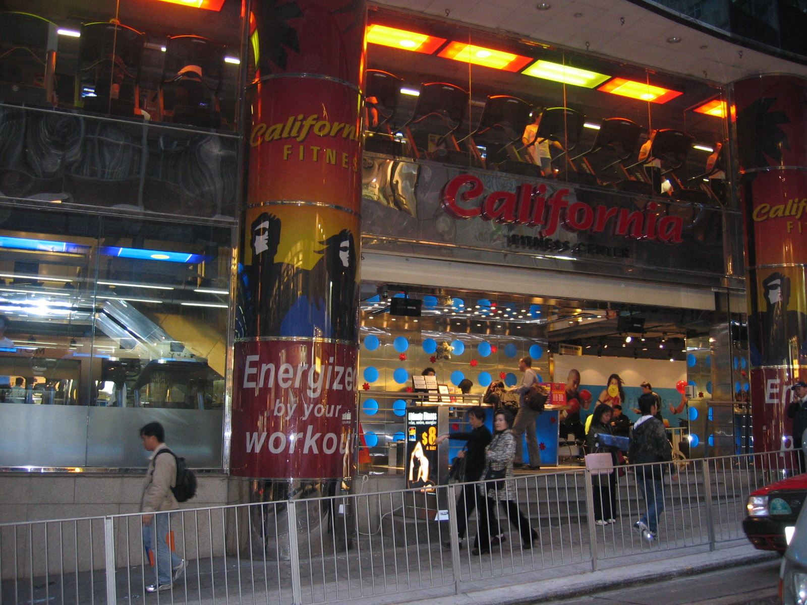 A California Fitness Centre at Central, Hong Kong.